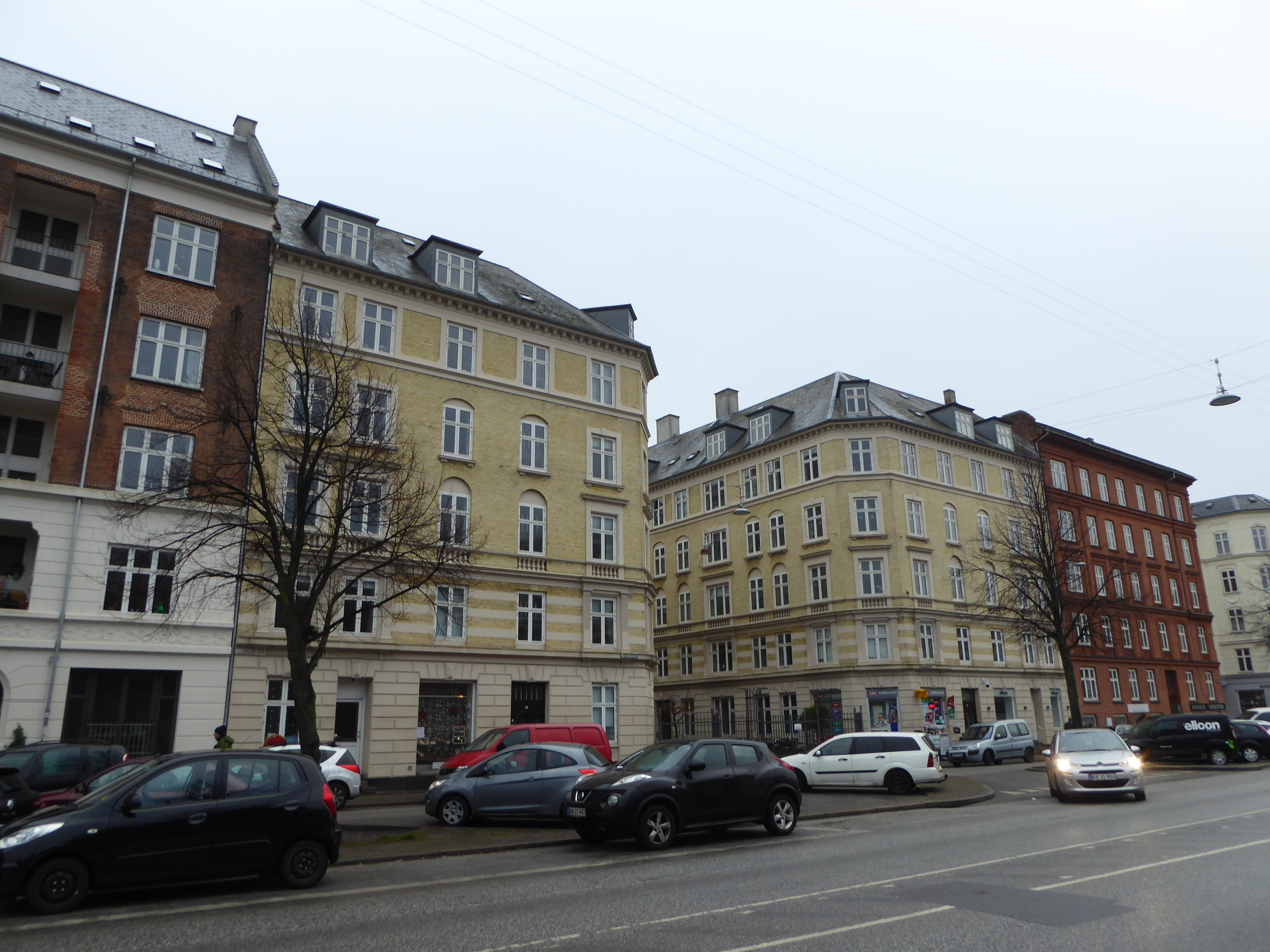 Apartment buildings at the corner of Blegdamsvej and Ny Blegdamsvej in Østerbro in Copenhagen.